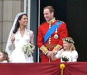 The British royal family on Buckingham Palace balcony after Prince William and Kate Middleton were married.